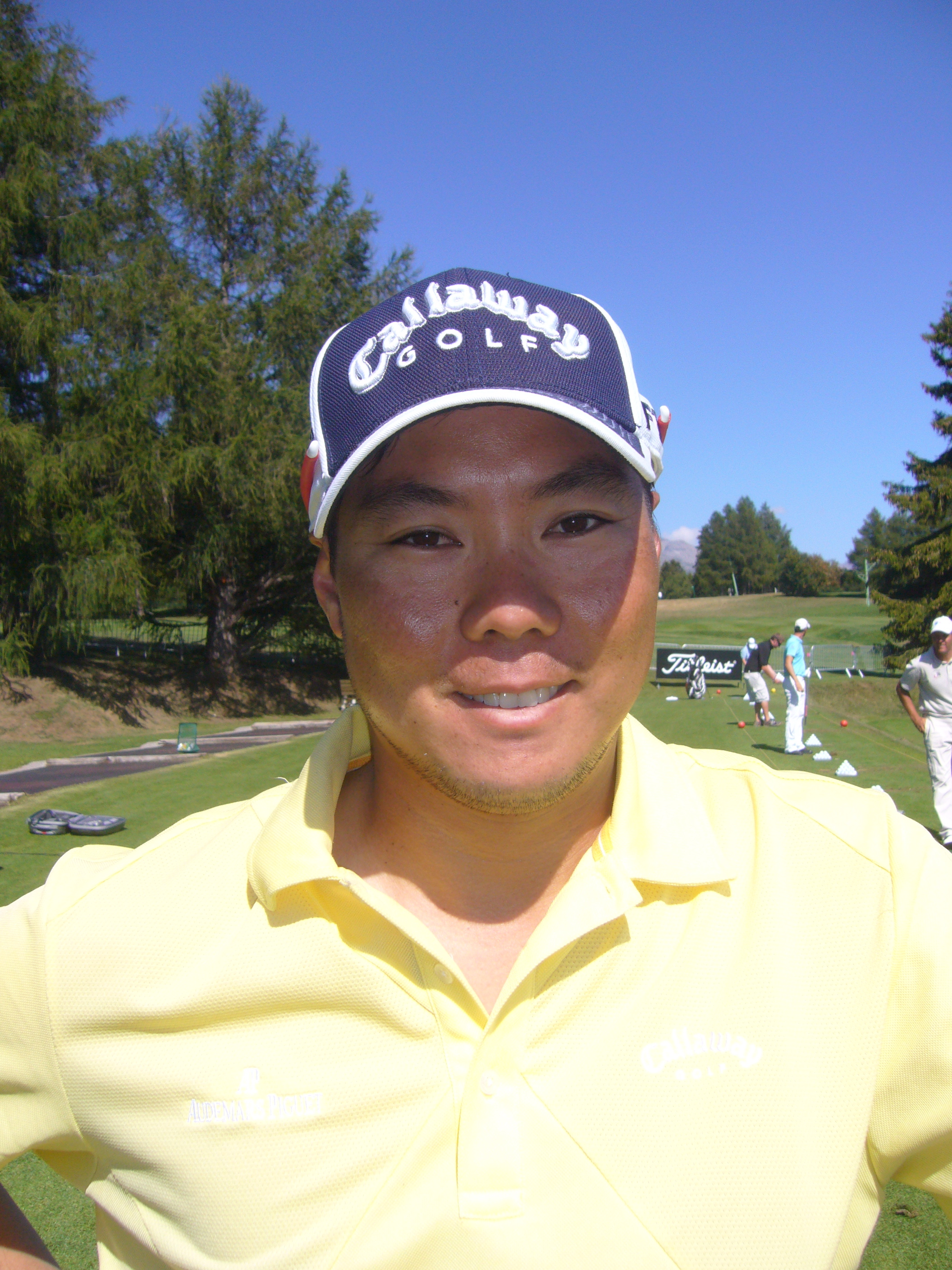 Chih-Bing LAM, golfer from Singapore